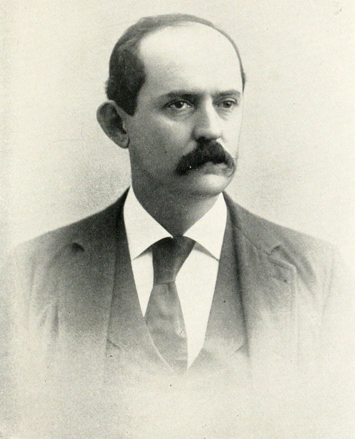 George W. Shonk (Pennsylvania Congressman)